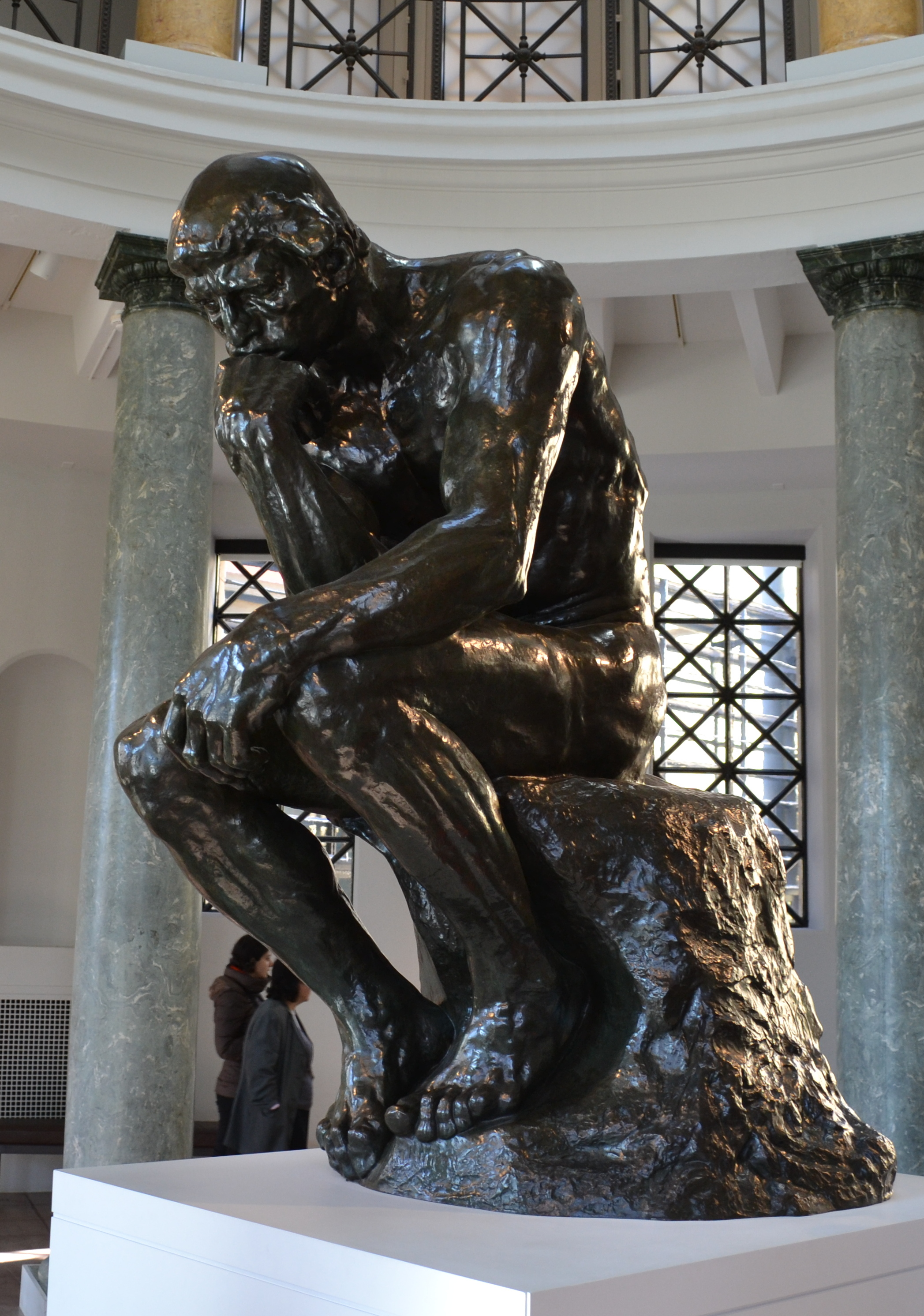 The Thinker by Rodin at the Cantor Arts Center of Stanford University